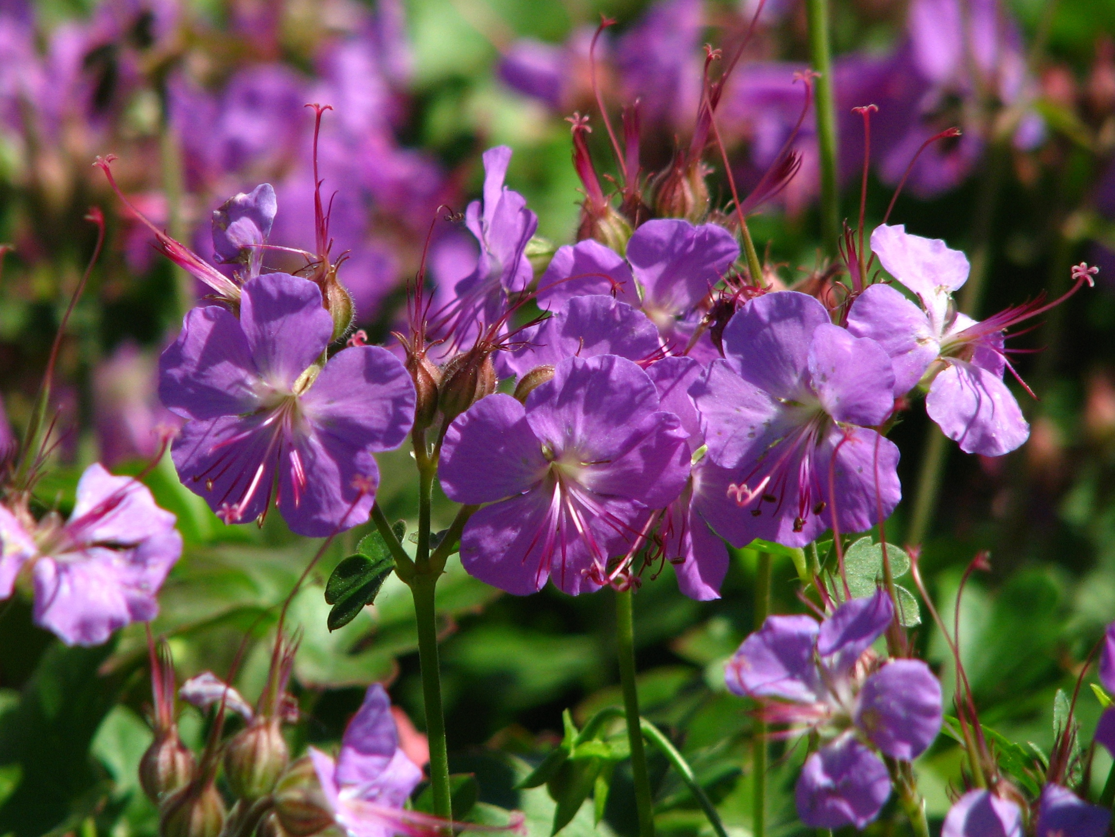 Geranium × cantabrigiense 'Cambridge'. From the collection of the Main Botanical Garden of Academy of Sciences in Moscow (perennials plot).